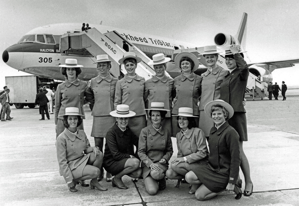 Court Line Lockheed TriStar leased from Lockheed with some of the airline's hostesses wearing their multi-coloured uniforms. Manchester Airport 1972.